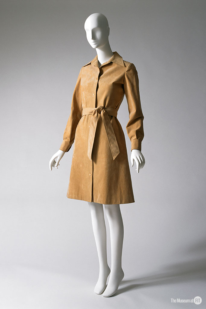 Tan ultrasuede 1972, USA Gift of Mrs. Sidney Merians, 82.193.4 YSL + Halston: Fashioning the 70s Photograph by Eileen Costa © The Museum at FIT.